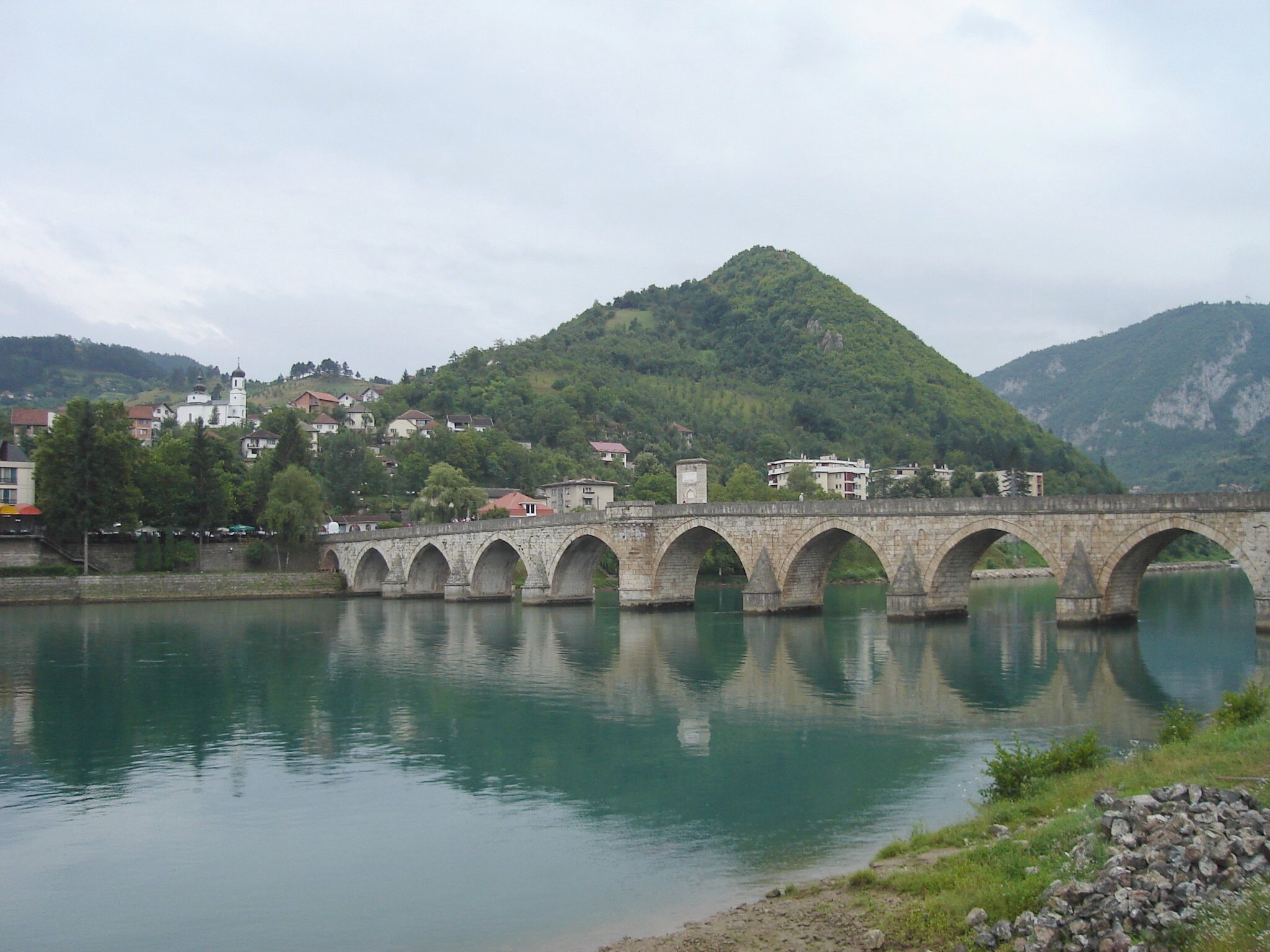 Višegrad in Bosnia and Herzegovina, old bridge over the river Drina